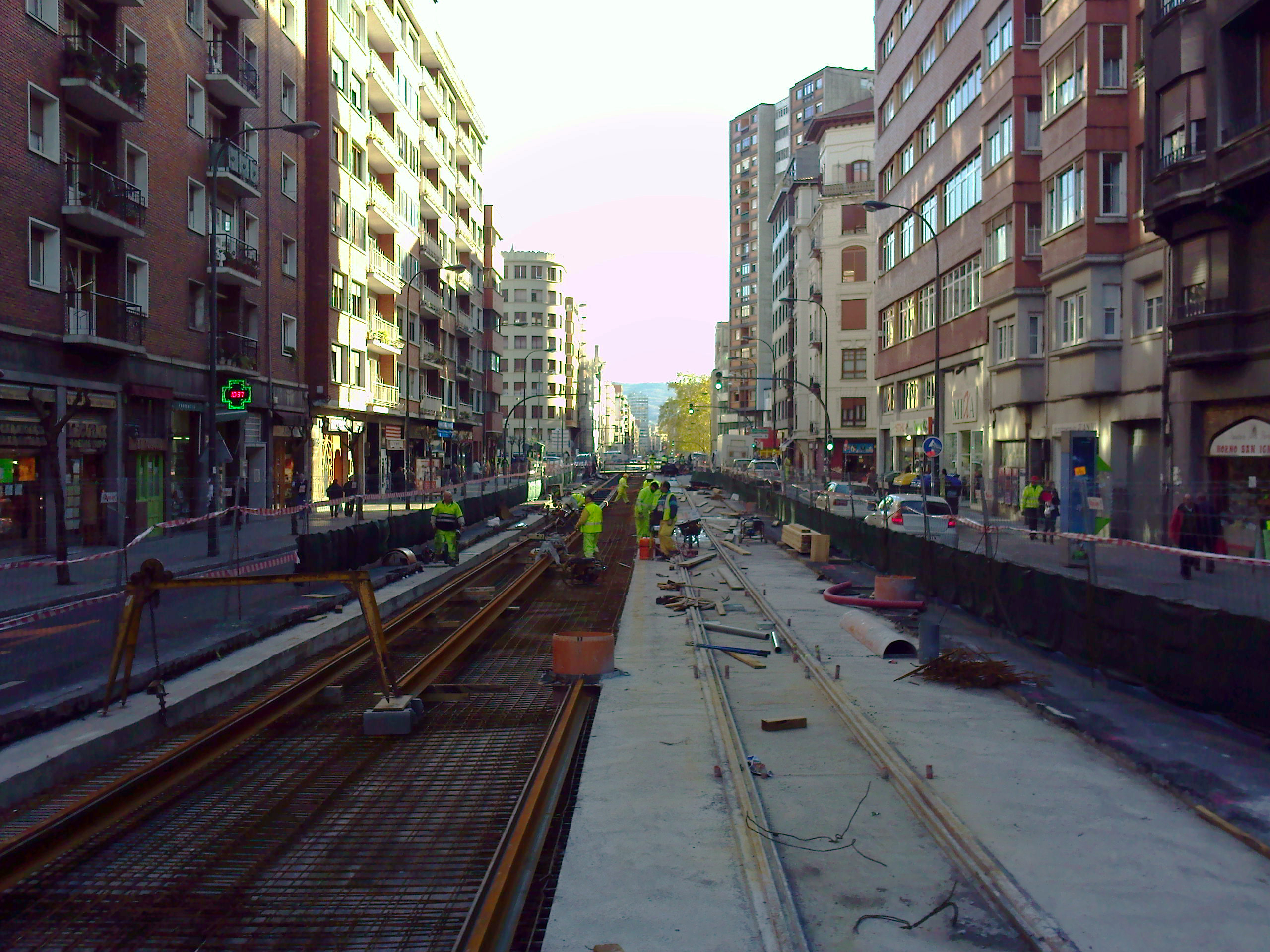 EuskoTran expansion in Autonomía Avenue, in Bilbao.